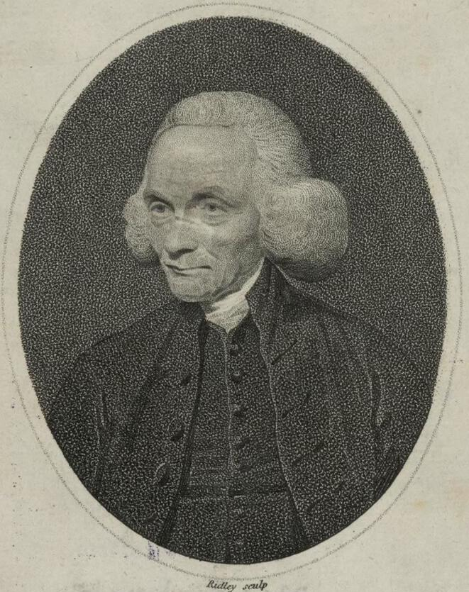 A portrait from the Welsh Portrait Collection at the National Library of Wales. Depicted person: Joshua Thomas – Historian of Welsh Baptists